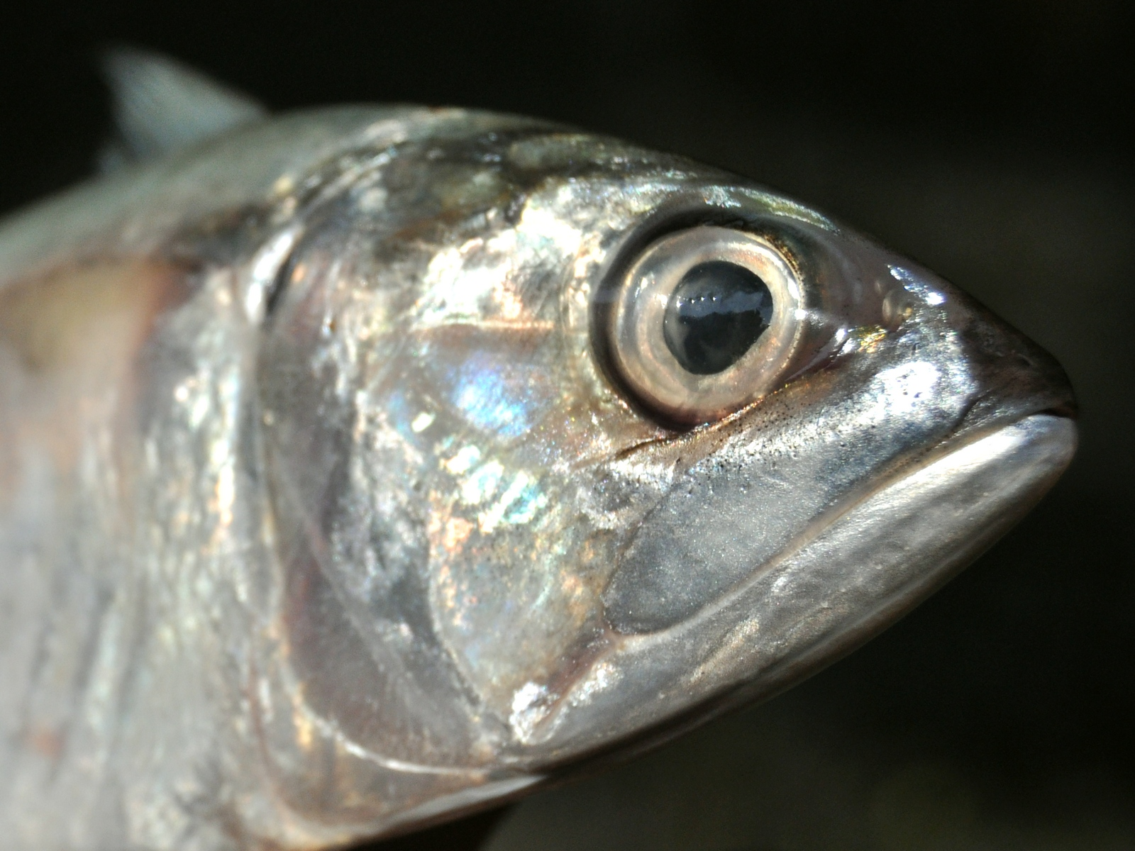 Short mackerel Rastrelliger brachysoma, 145 mm fork length. Head close up. From Bogor market, West Java,Indonesia.